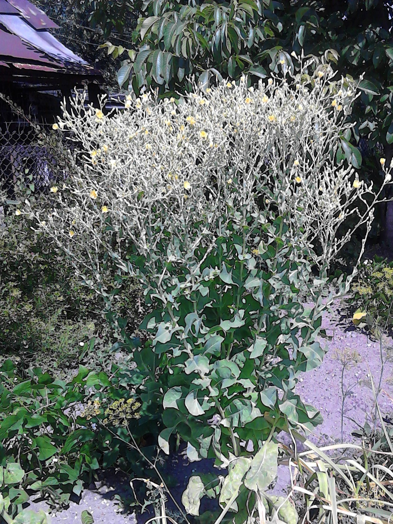 Lettuce (Lactuca sativa convar. capitata) in Lónyaytelep, Transylvania.